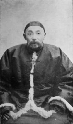 Wang Shunan